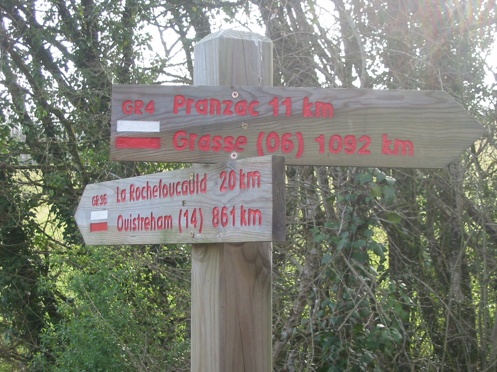 Junction of two footpaths GR4 and GR36 in southwestern France